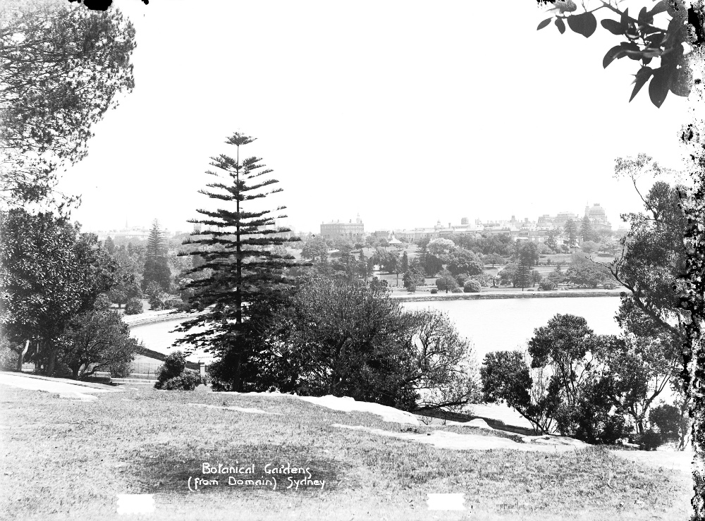 Royal Botanic Gardens (from Domain), Sydney Dated: c.31/12/1908 Digital ID: 18526_a024_000116 Rights: We'd love to hear from you if you use our photos. Many other photos in our collection are available to view and browse on our website using Photo Investigator.